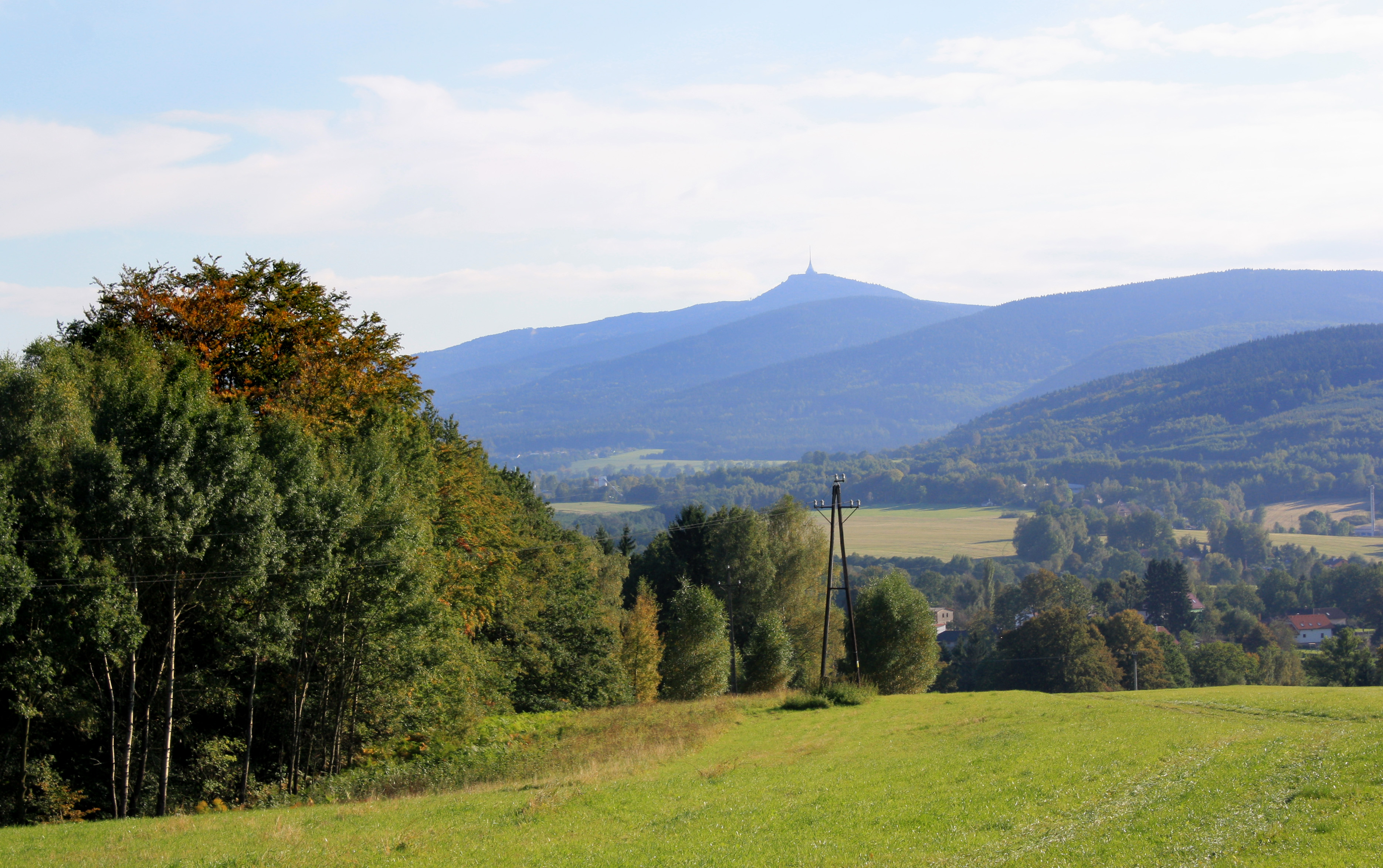 View of Ještěd from Vysoká, part of Chrastava, Czech Republic